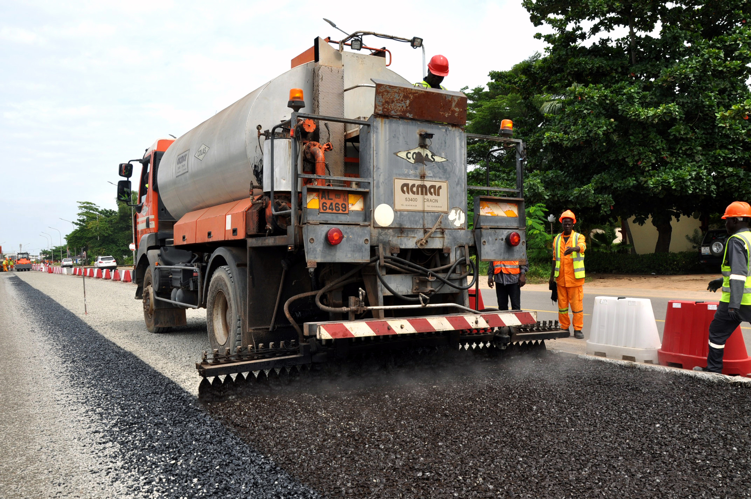 wide with eight vehicle passages, the roads of Benin challenge the major countries of the sub-region f This is an image with the theme "Africa on the Move or Transport" from: Benin